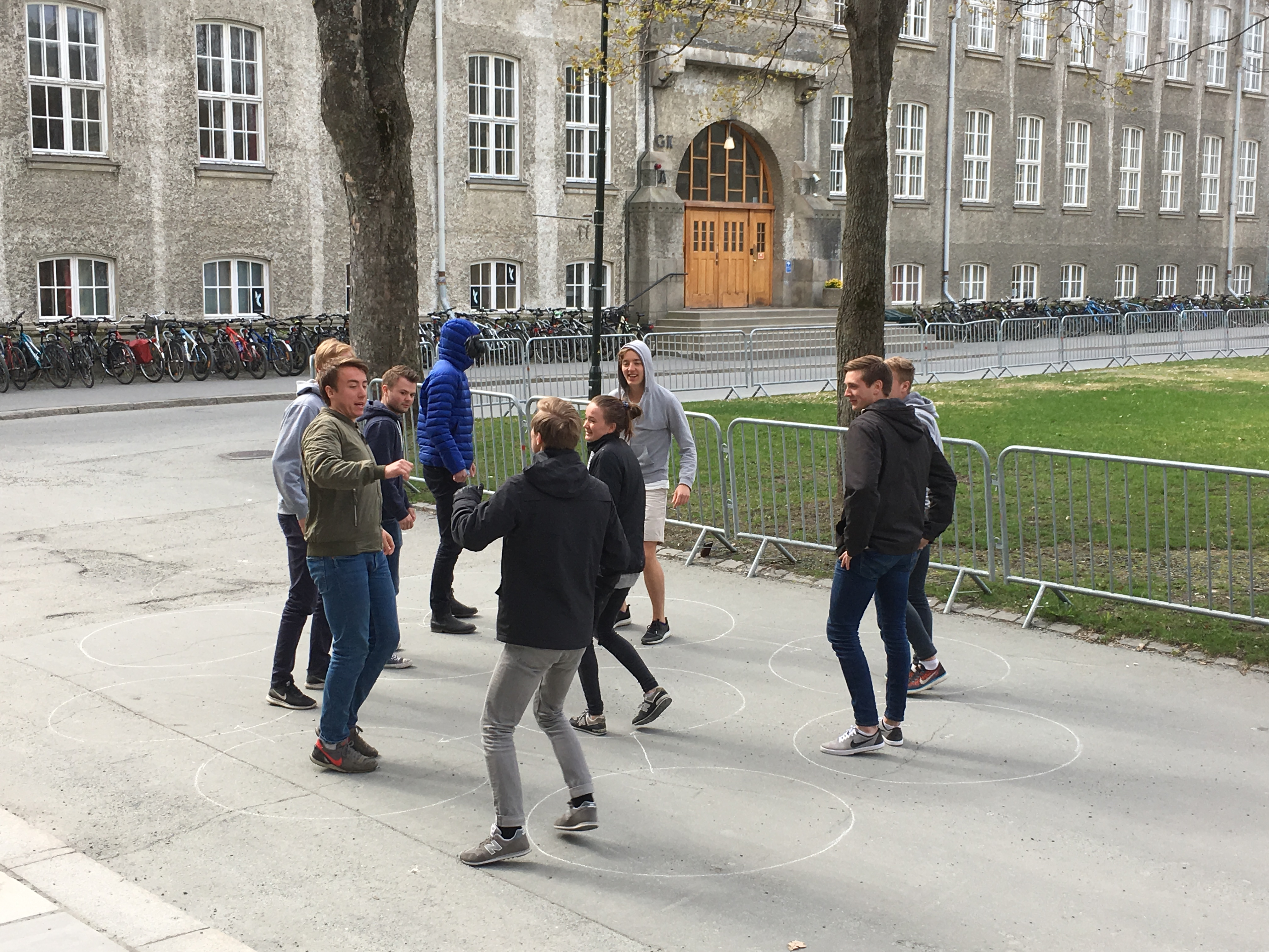 Students at the Norwegian University of Science and Technology (NTNU) playing basse outside the old chemistry building (="Gamle kjemi")